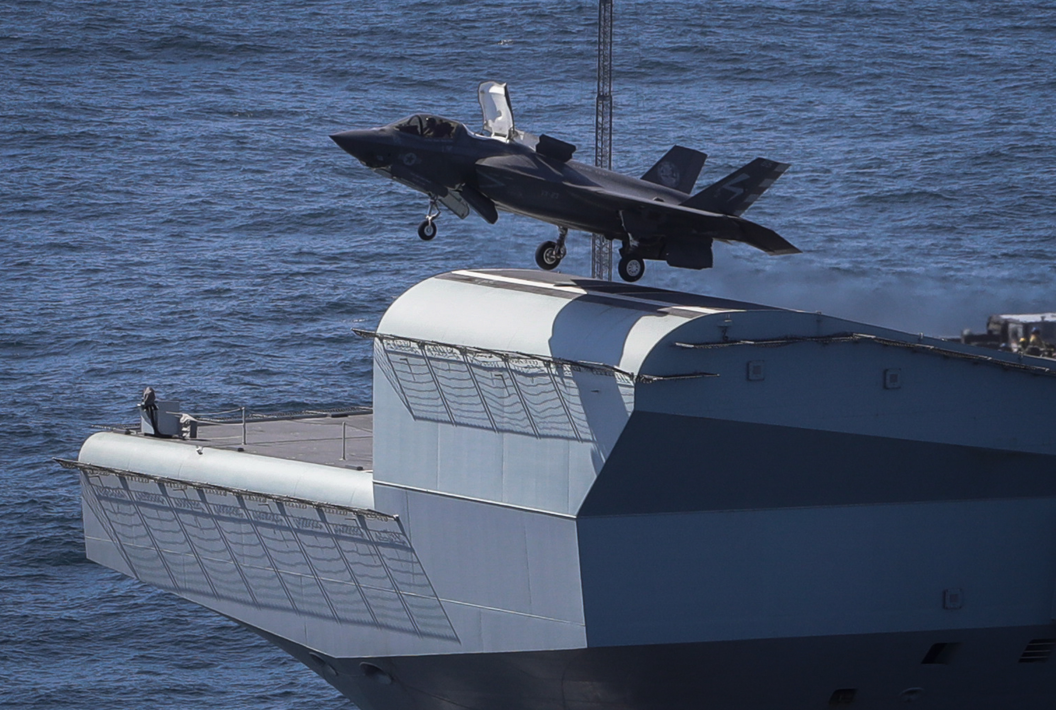 Royal Navy Cmdr. Nathan Gray, F-35 Integrated Test Force at NAS Patuxent River, Md., makes the first ever F-35B Lightning II takeoff from HMS Queen Elizabeth. Two F-35Bs landed onboard the new British aircraft carrier this week laying the foundations for the next 50 years of fixed wing aviation in support of the UK’s Carrier Strike Capability.